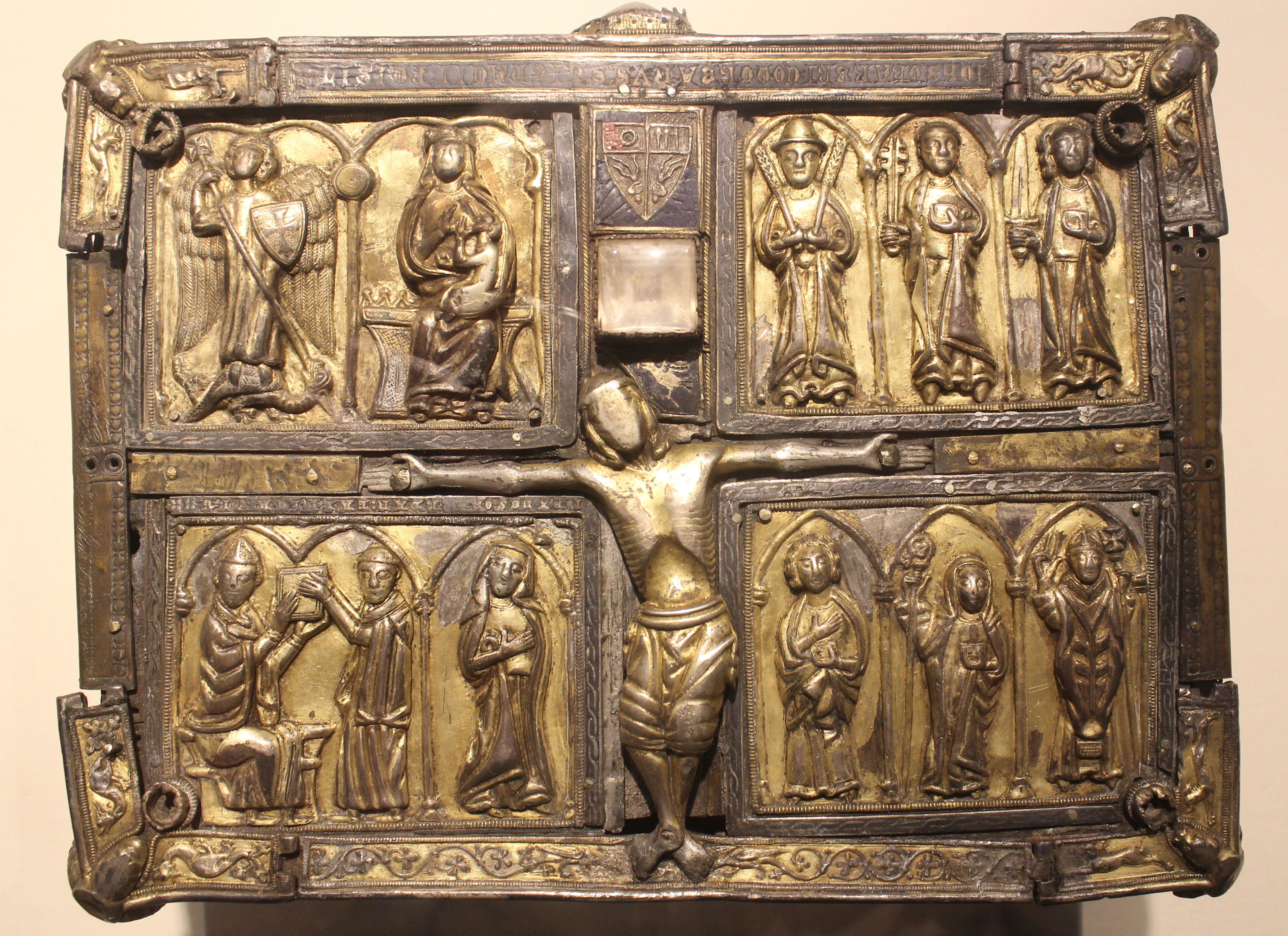 The Domhnach Airgid, or Silver Church, a "book shrine" (Cumdach), was believed to have originally contained relics associated with St Patrick. In about 1350 the abbot of Clones, Co. Monaghan, John O Carbry, commissioned a substantial remodelling of the Domhnach Airgid. This remodelling, in the then contemporary Gothic Style made a political point by fusing contemporary feudal ideals with an insistence on the validity of indigenous traditions, in this case, the ministry of Saint Patrick. It is item 48 in A History of Ireland in 100 Objects.